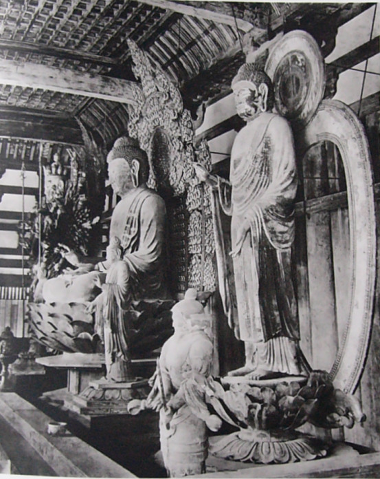 Statues in Golden Hall in Toshodaiji.Yakushi Nyorai(Bhaisajyaguruvaidurya-tathagata) and Seated Rushana Buddha(Vairocana) and SENJYU KANNON(sahasrabhuja aaryaavalokitezvara), 8th century-early 9th century, Toshodaiji, Nara, Japan